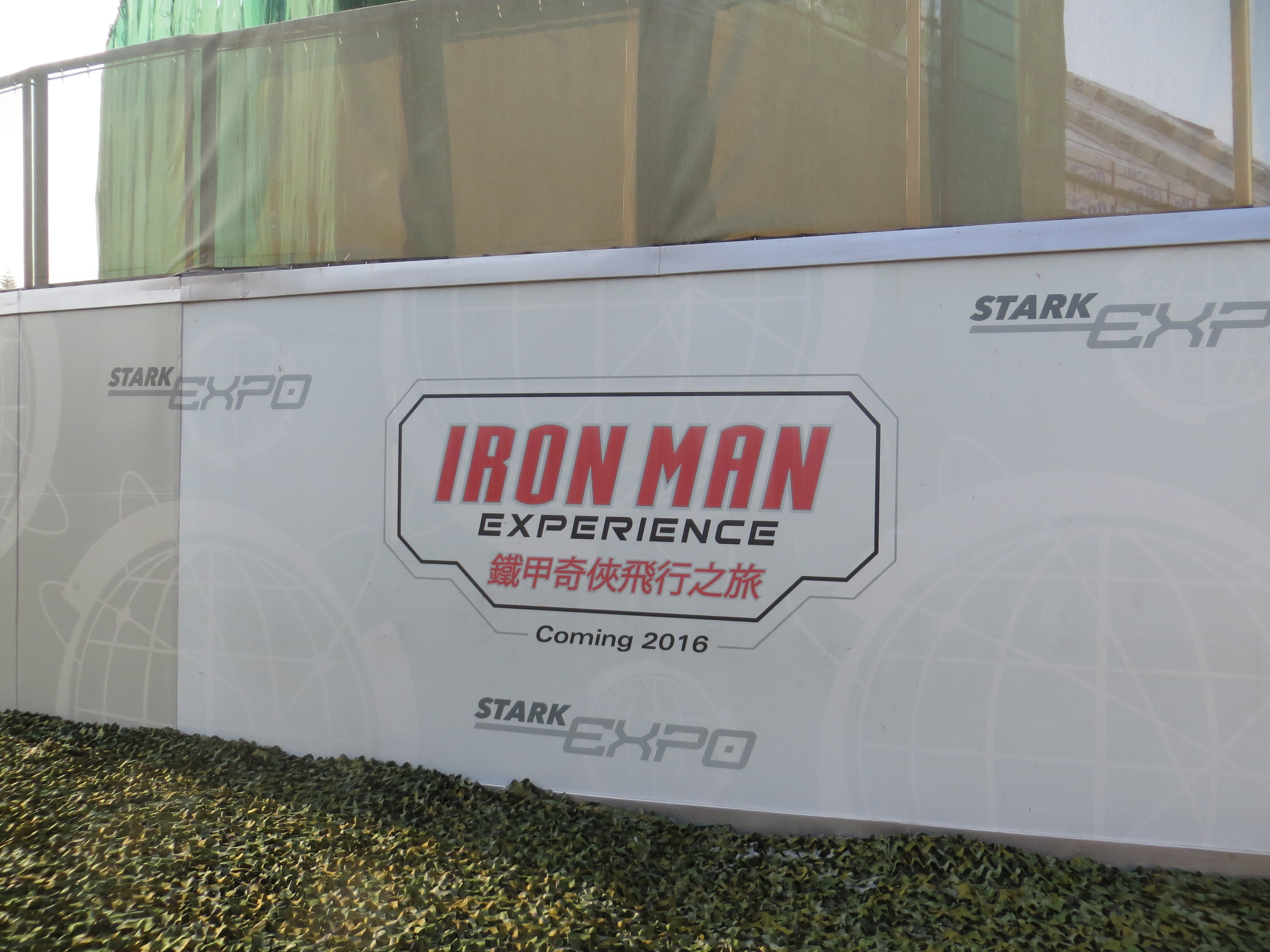 Iron Man Experience construction site at Hong Kong Disneyland Tomorrowland is covered by this board.